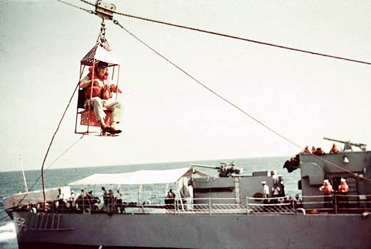 View of a personnel transfer between the U.S. Navy attack transport USS Rankin (AKA-103), not visible, and the destroyer escort USS Howard D. Crow (DE-252), in 1960.